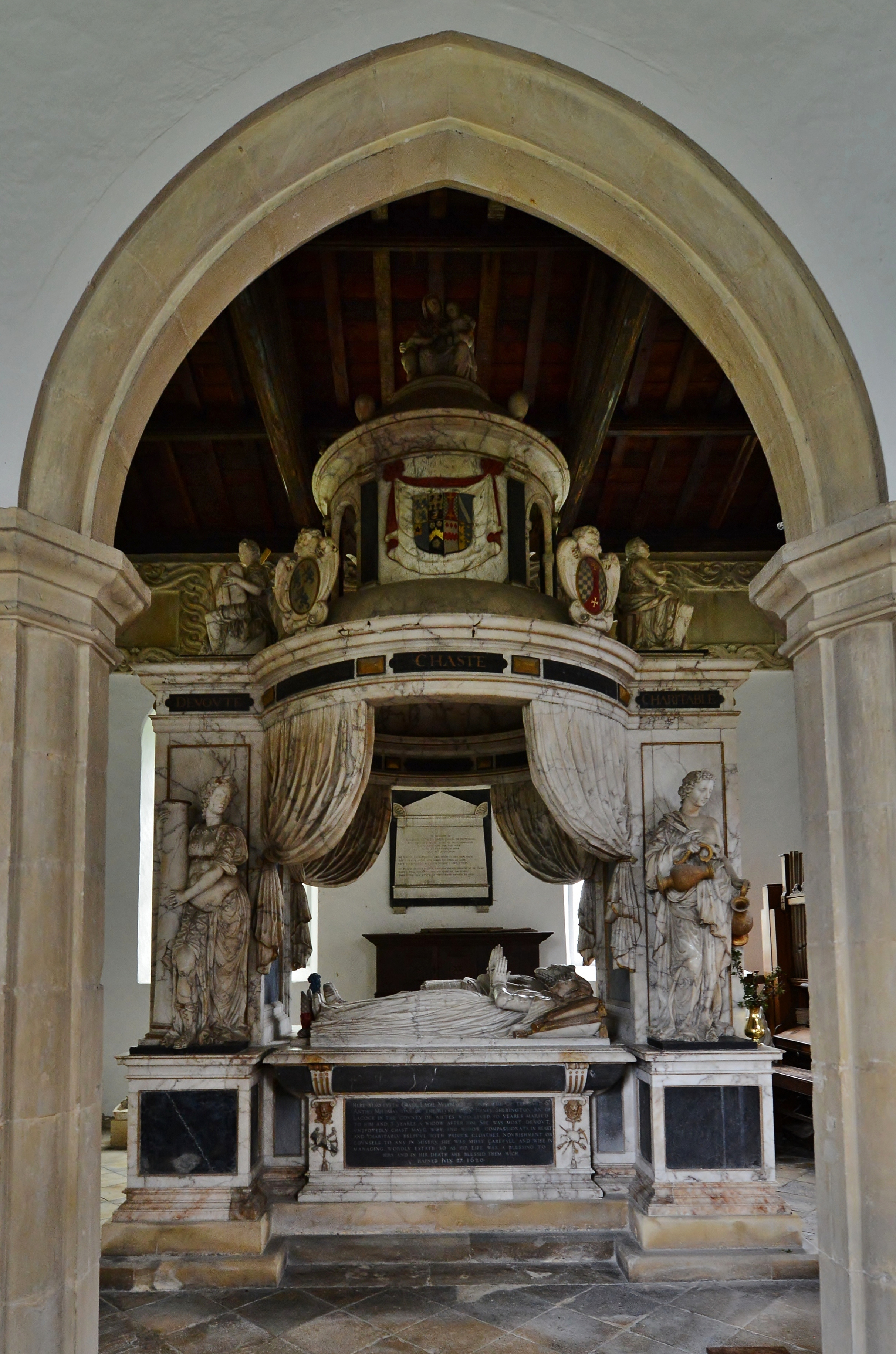 Monument to Sir Anthony Mildmay (died 1617) of Apethorpe Hall, Northamptonshire, a Member of Parliament for Wiltshire from 1584 to 1586 and as English ambassador in Paris in 1597. South Chapel, St Leonard's Church, Apethorpe.e